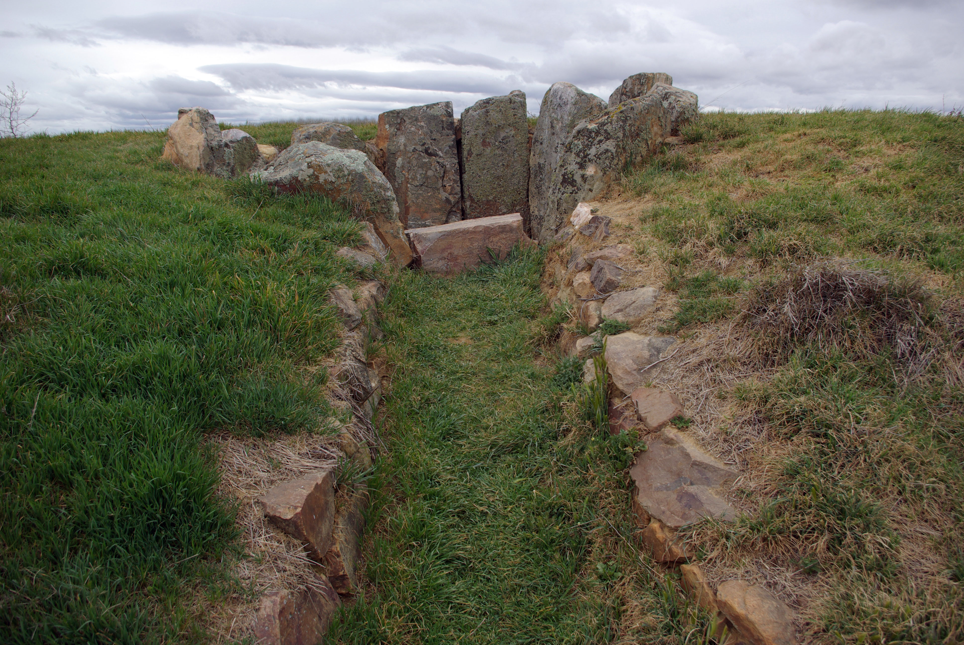 Dolmen of San Adrián, near Benavente, Zamora, (Spain)